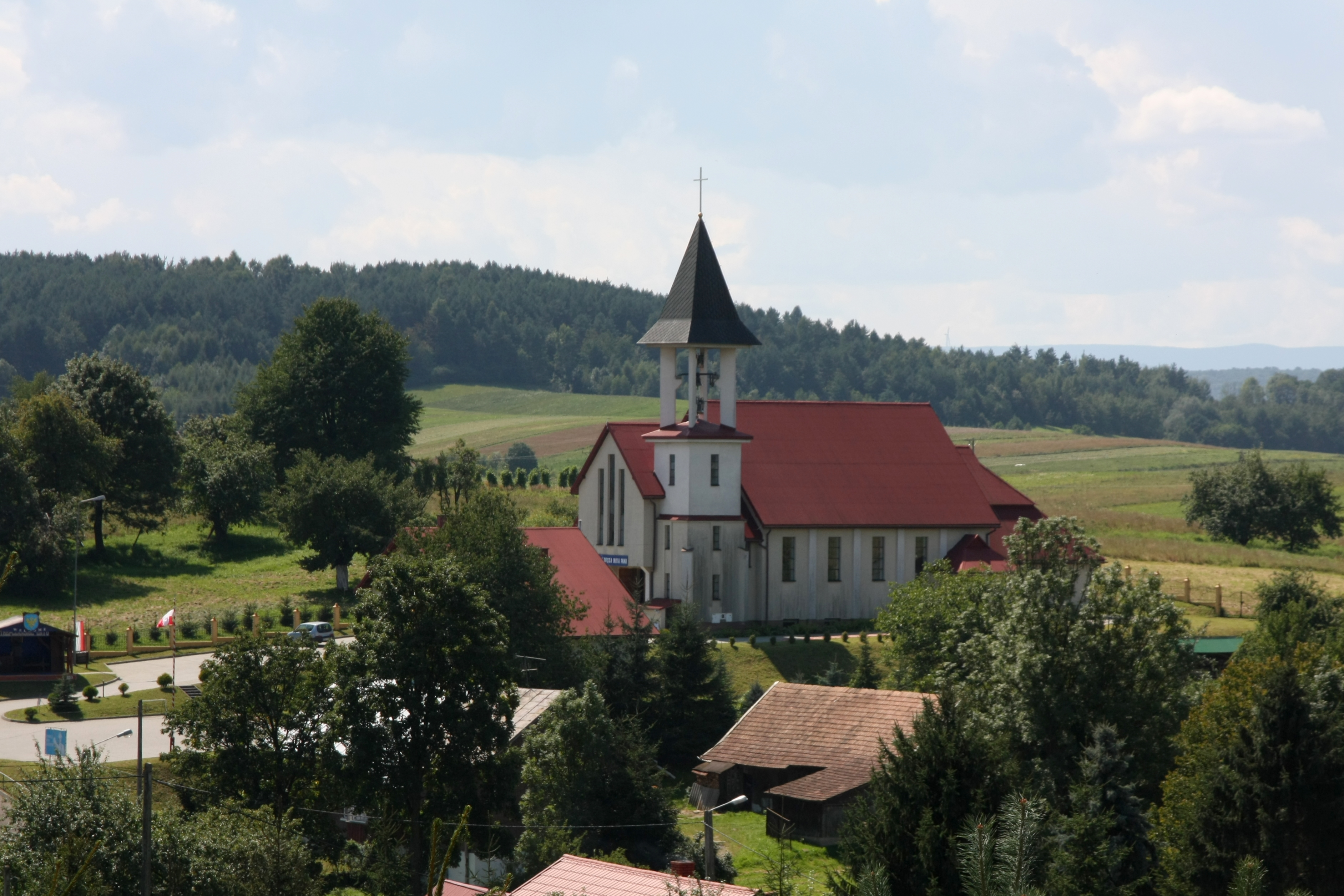 New church in Trepcza.